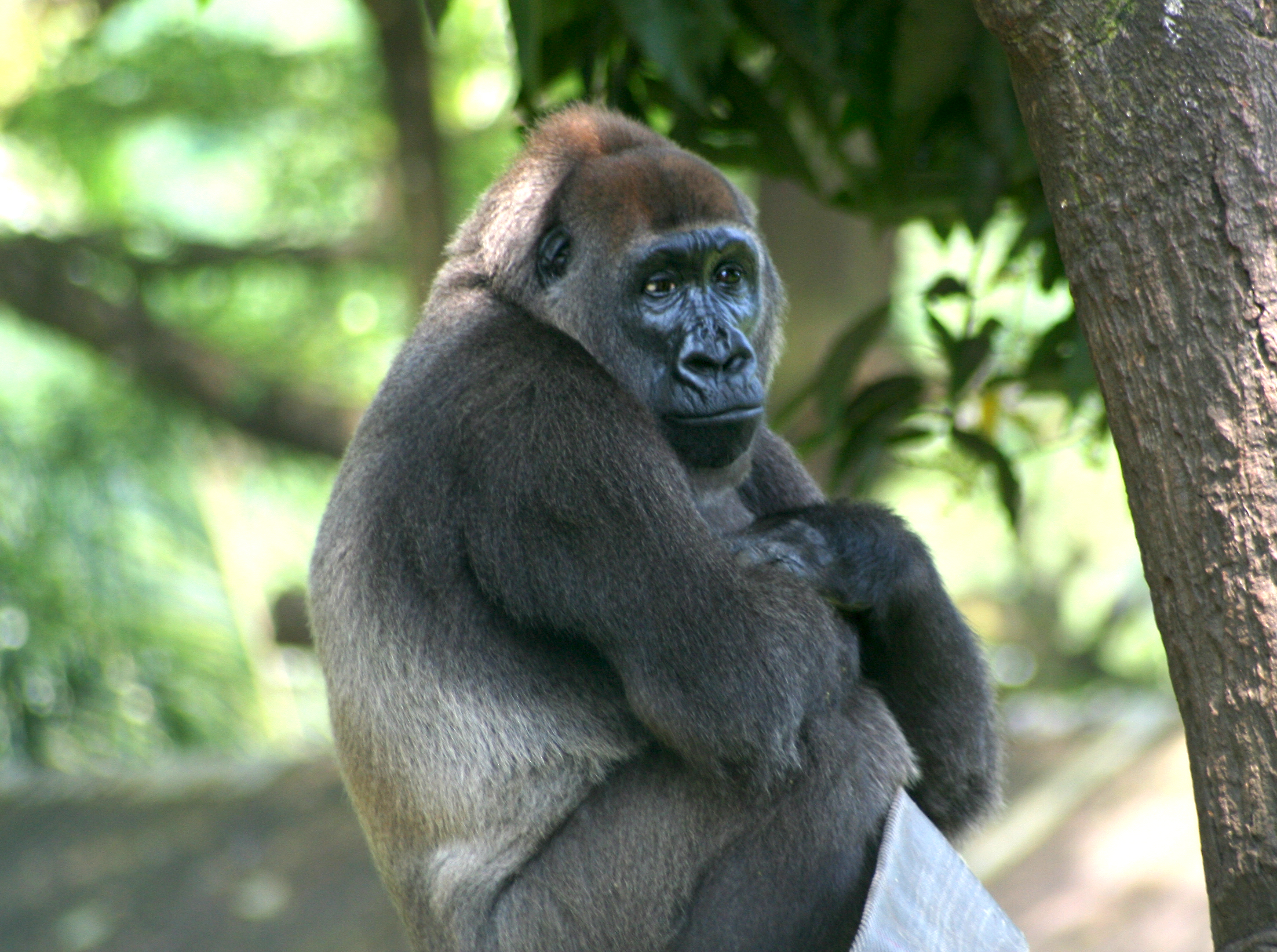 Cross River Gorilla (Gorilla gorilla diehli) Native to the cross river area on the border of Cammeroon/Nigeria, the Cross River Gorilla is considered to be one of the most endangered primates and one of the rarest. Approximately only 300 left in the wild, and just one in captivity at the Limbe Wildlife Centre, Limbe, Cameroon. This lady gorilla is called Nyango. Please credit Julie Langford (photographer) when using this work, and also raise attention to the work of Limbe wildlife Centre by providing a link to their website.